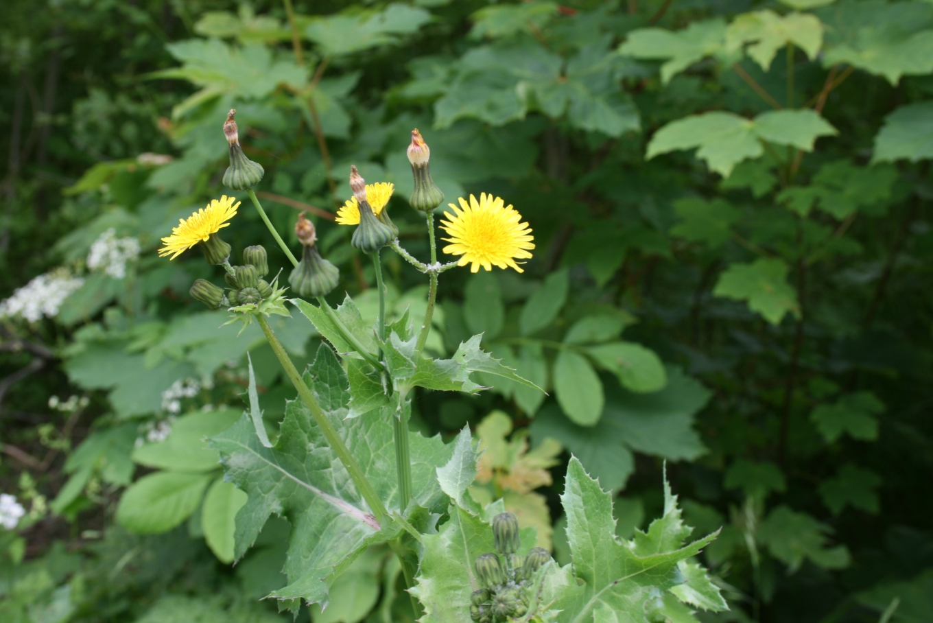 Sonchus oleraceus: Flowers